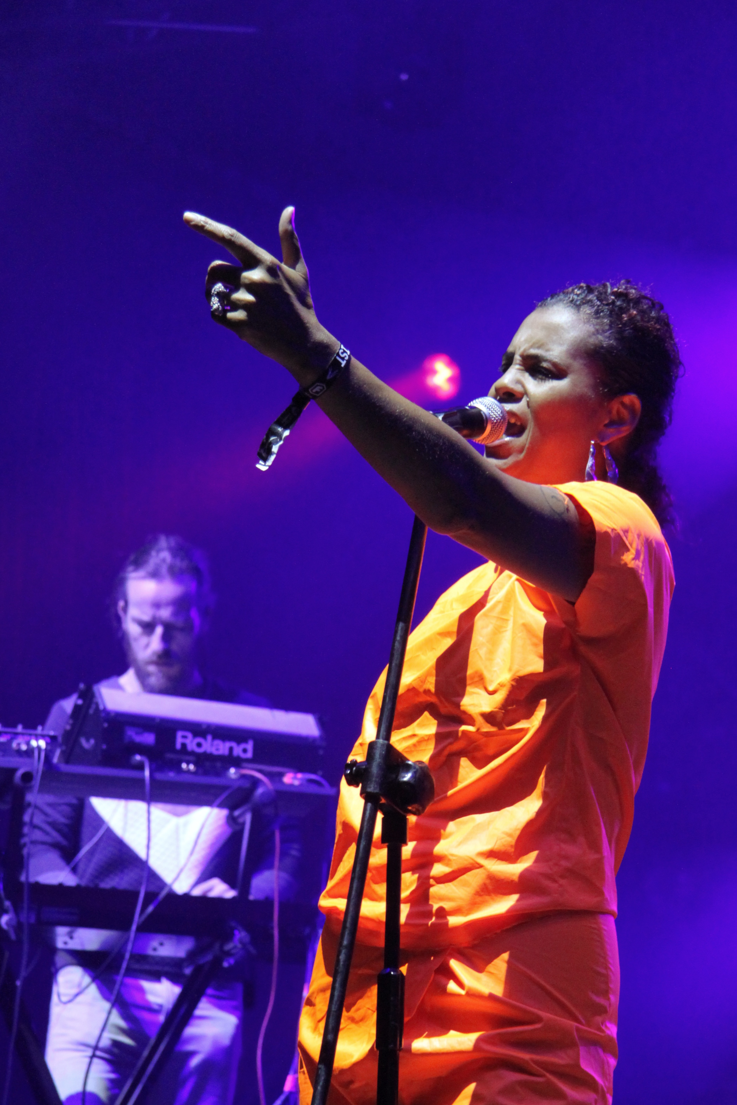 Neneh Cherry during Tauron Nowa Muzyka 2014 festival.